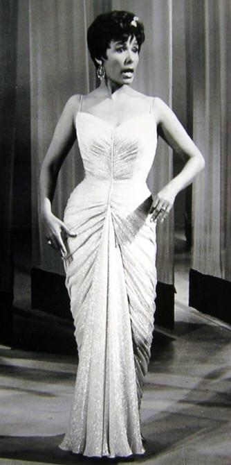 Publicity photo of Lena Horne performing on The Bell Telephone Hour television show.